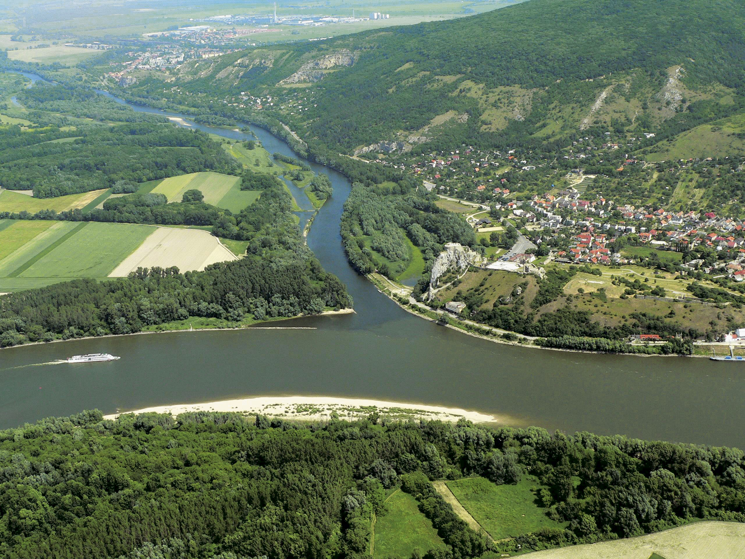 The site of the Morava influx into the Danube under the ruins of Devín. The water corridor D-O-E would branch-off here in case of the variant A or D.